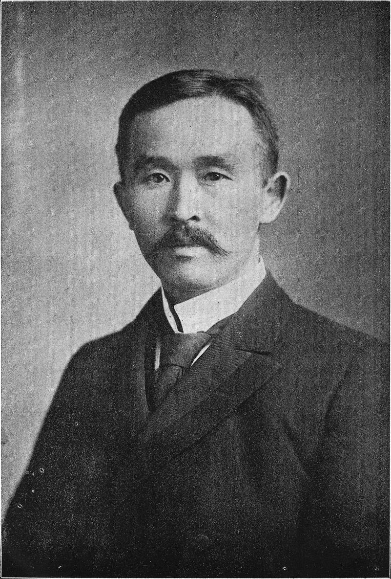 Yamamoto Tatsuo as BOJ governor